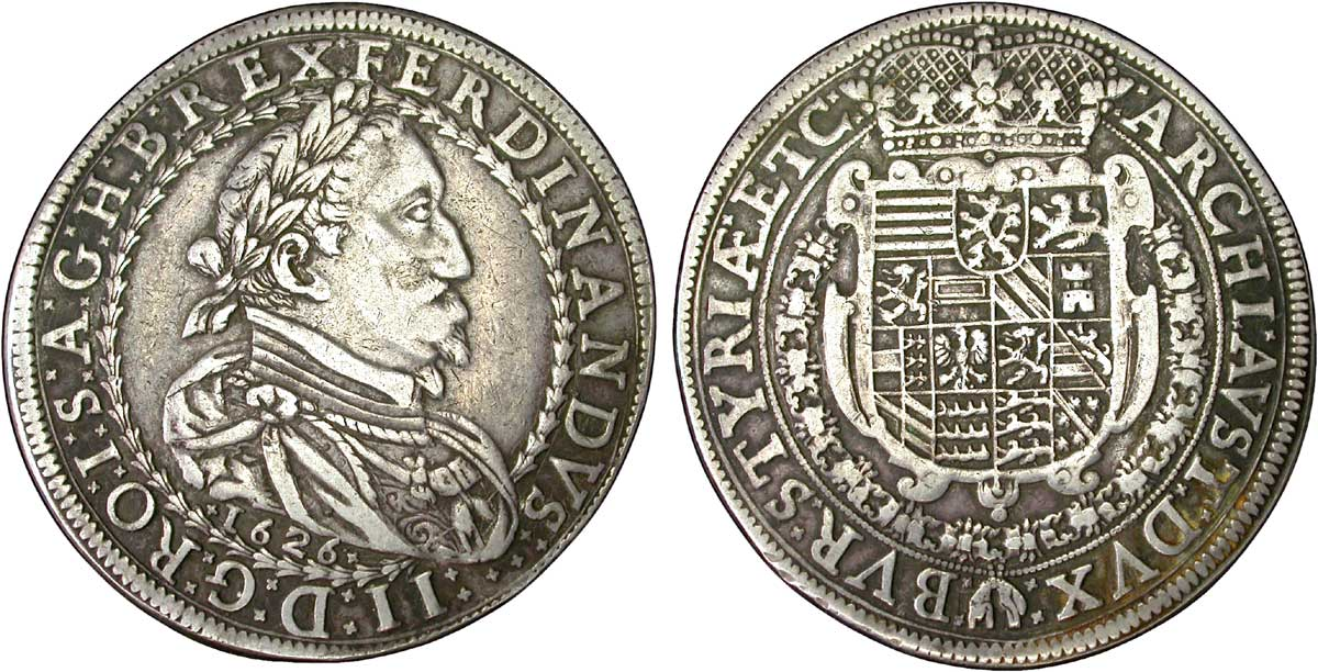 Thaler à l'effigie de Ferdinand II, 1626